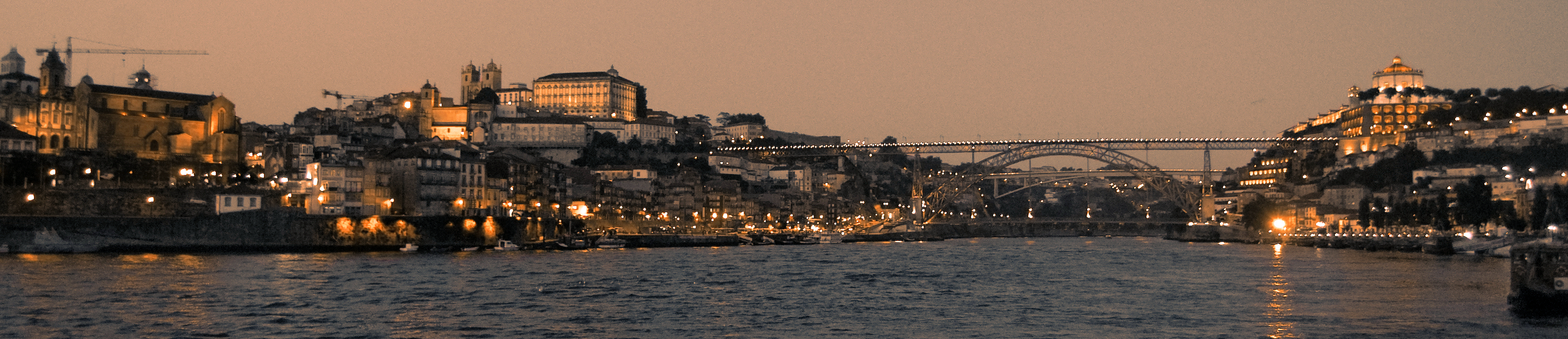 Oporto at left and Vila Nova de Gaia at right, in Portugal. The river is Rio Douro. Taken hand-held with a Nikon D40, 18-55mm original kit lens. Mastered with Adobe Lightroom and Corel Paintshop Pro XI.